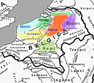 Map of ancient Belgica